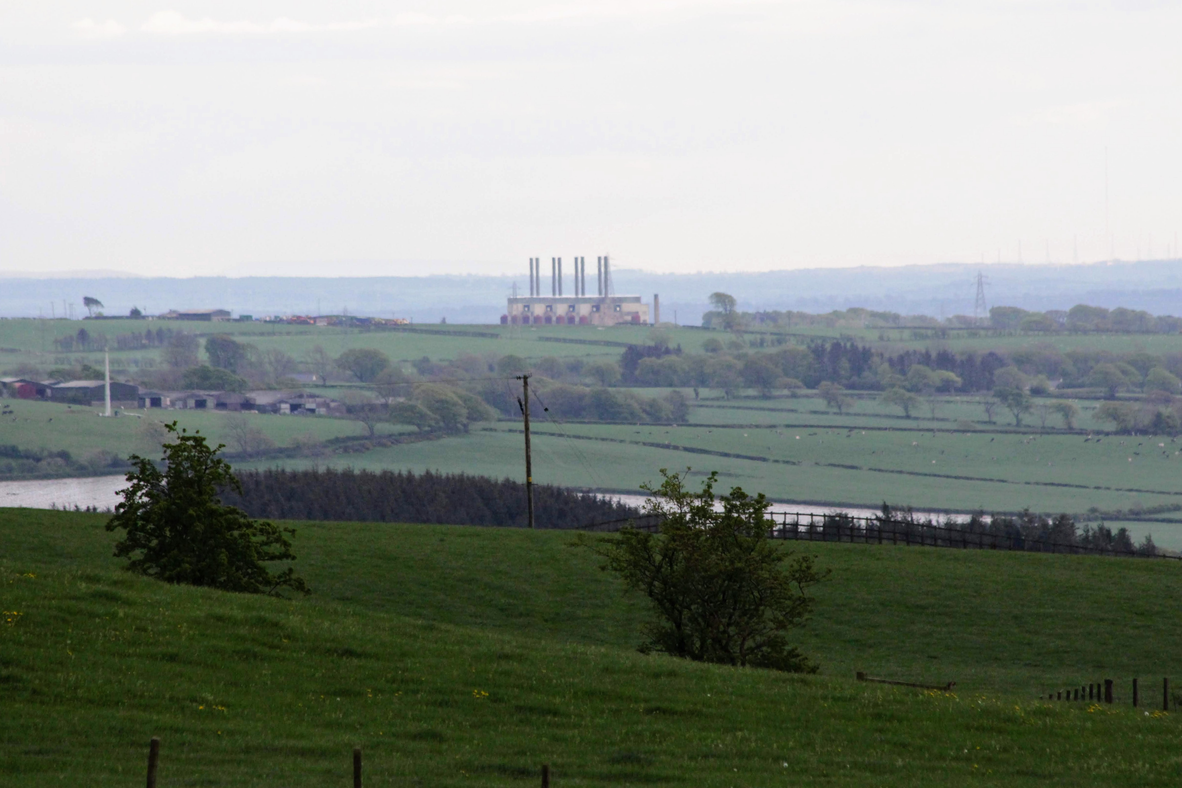 Remains of Chapelcross power station, Dumfriesshire, after demolition of towers